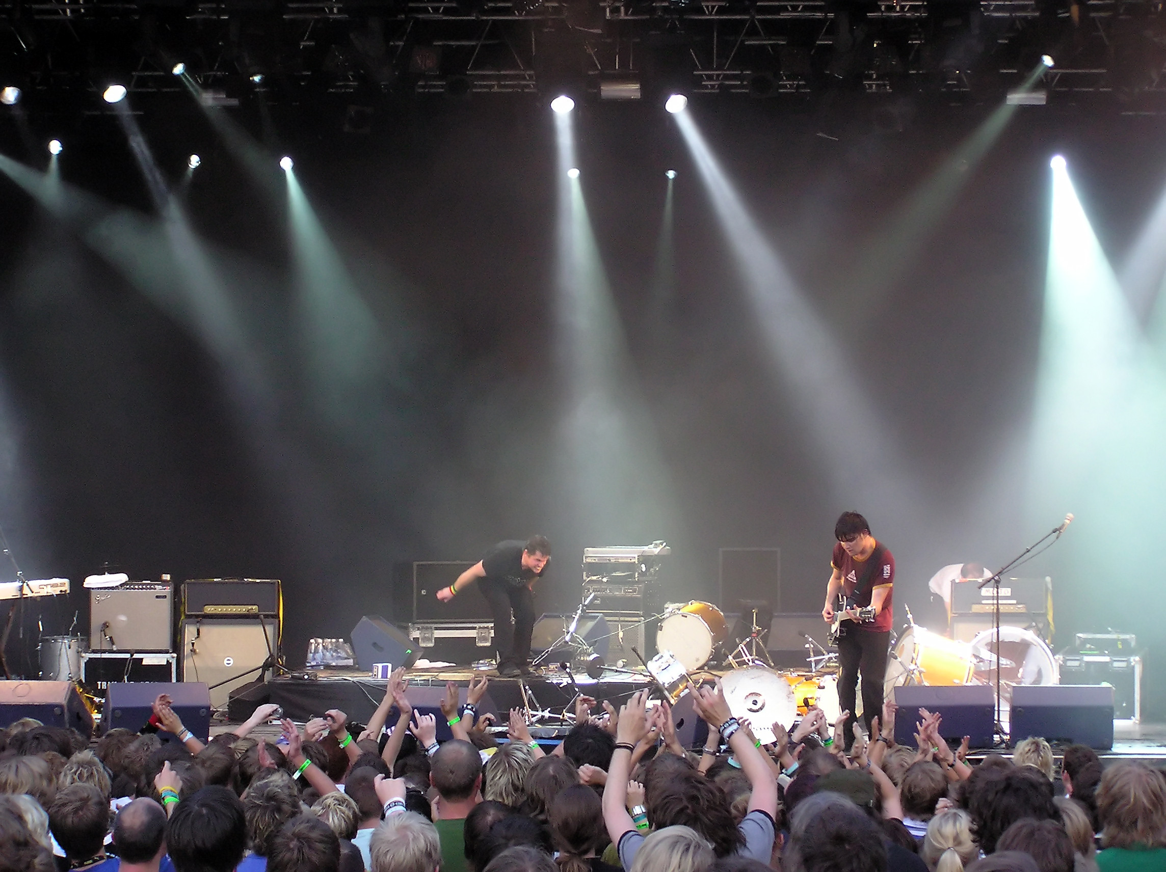 ...And You Will Know Us by the Trail of Dead (live) at Quart Festival 2005, Norway. End of the perfomance, Keely strumming the guitar while Reece is trashing equipment.